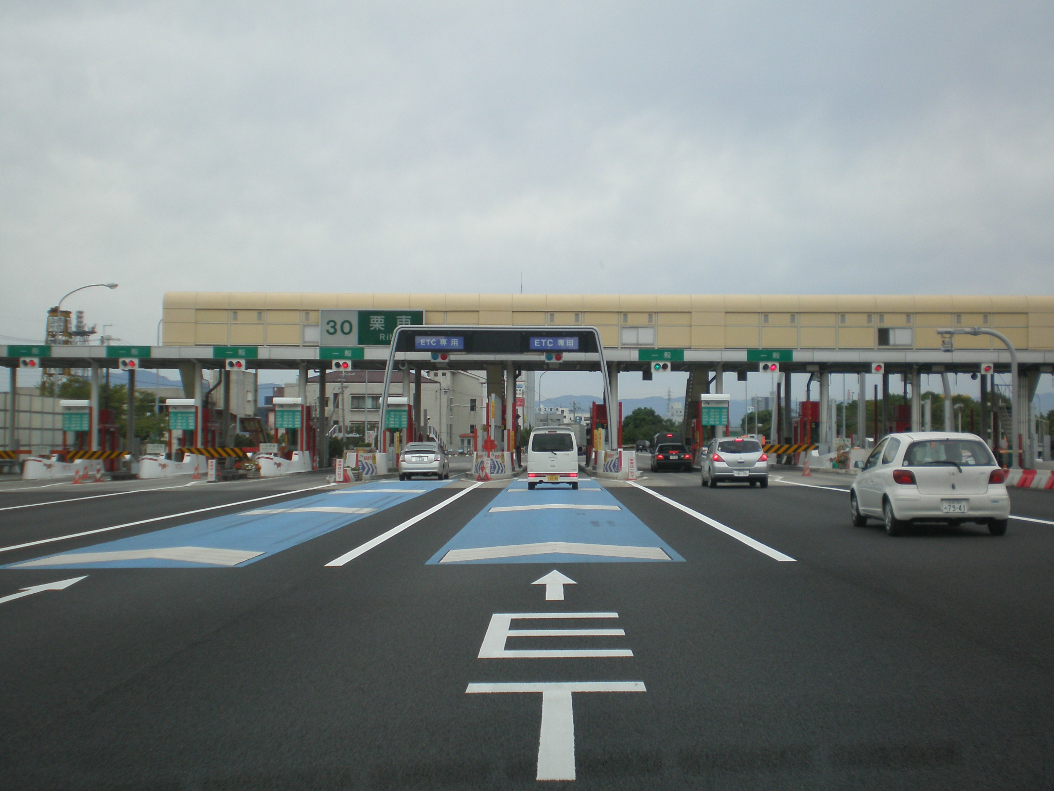 Ritoo interchange